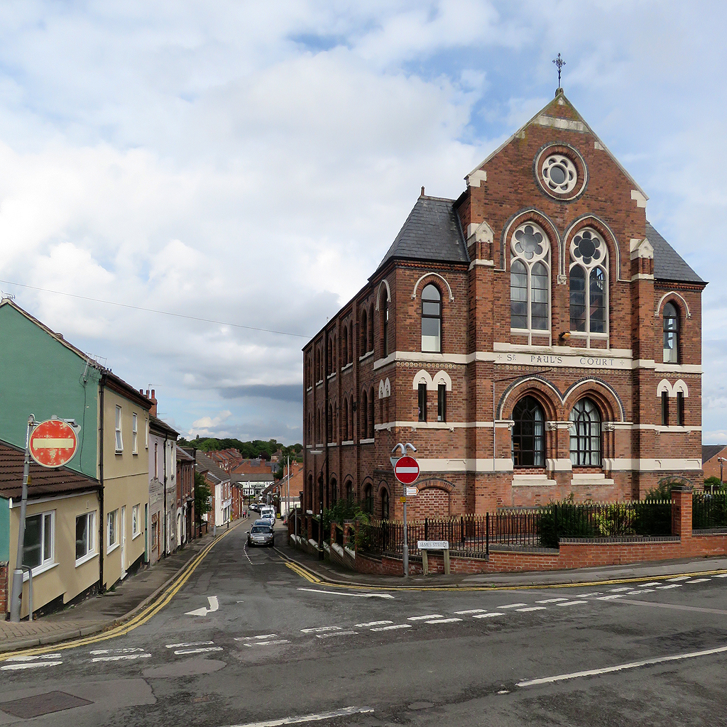 Kimberley: St Paul's Court